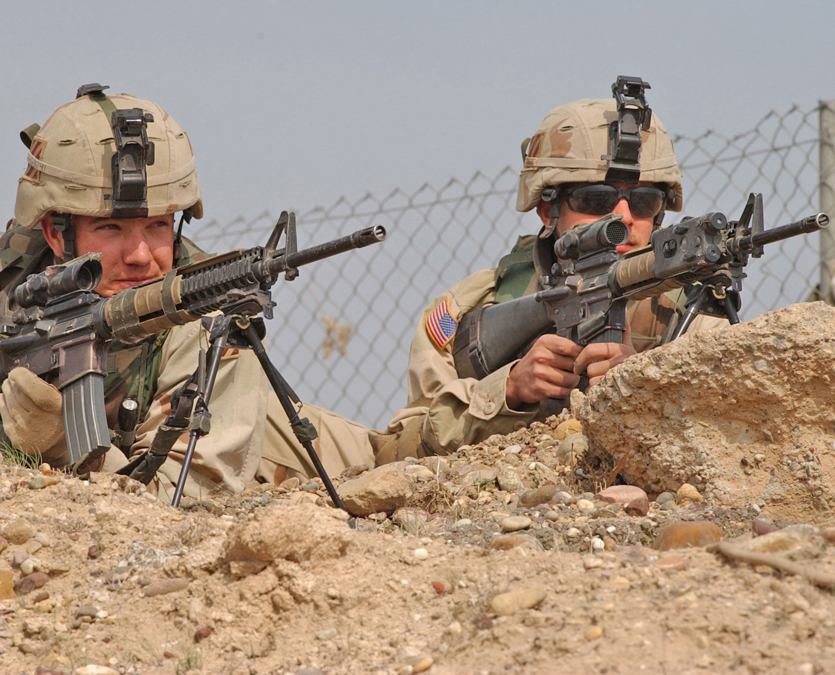 Soldiers from 3rd Infantry Division provide perimeter security for Iraqi policemen at a traffic control point in Tikrit, Iraq.